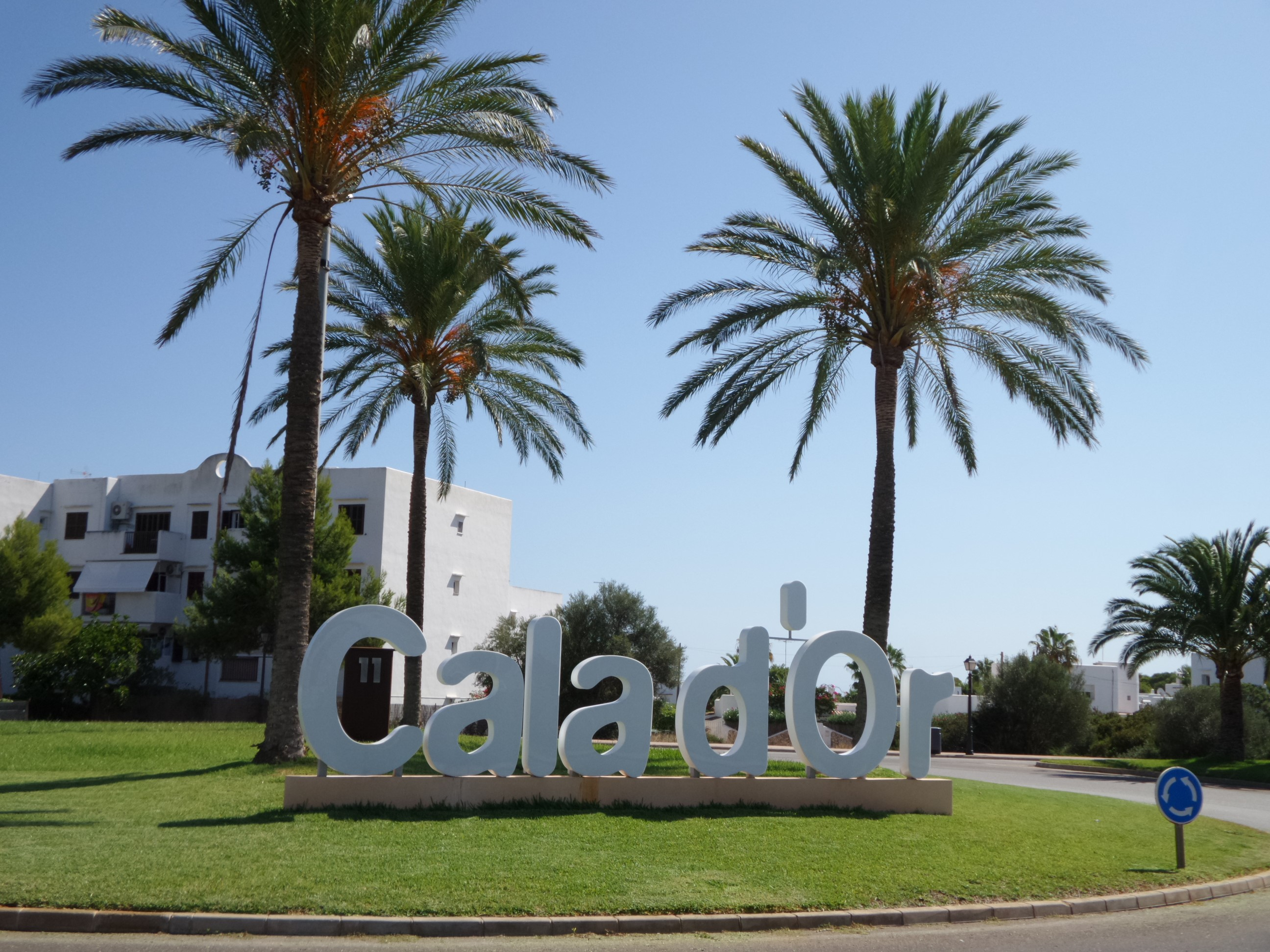 Traffic Circle 11 / Roundabout 11 (Cala d'Or), western local entrance